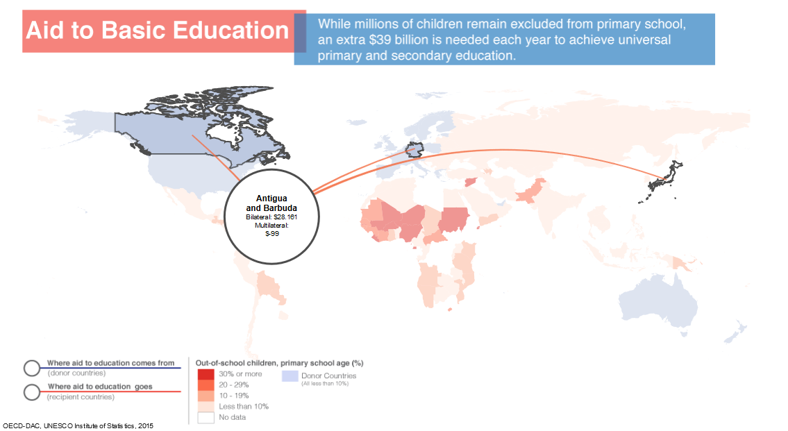 Aid to Basic Education. While millions of children remain excluded from primary school, an extra $39 billion is needed each year to achieve universal primary and secondary education.